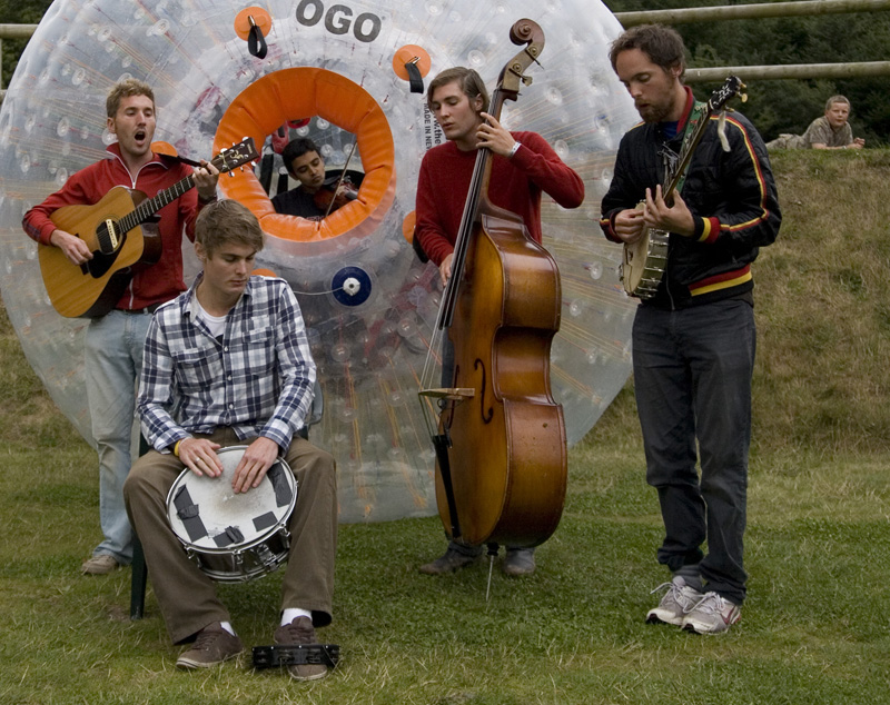 Stornoway go Zorbing in Dorset to celebrate the release of their first single